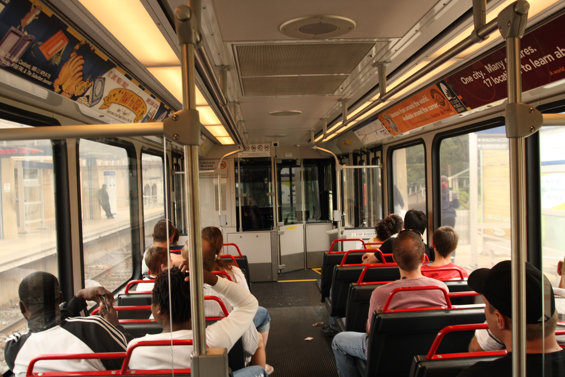 Interior of St. Louis MetroLink car taken in September 2007